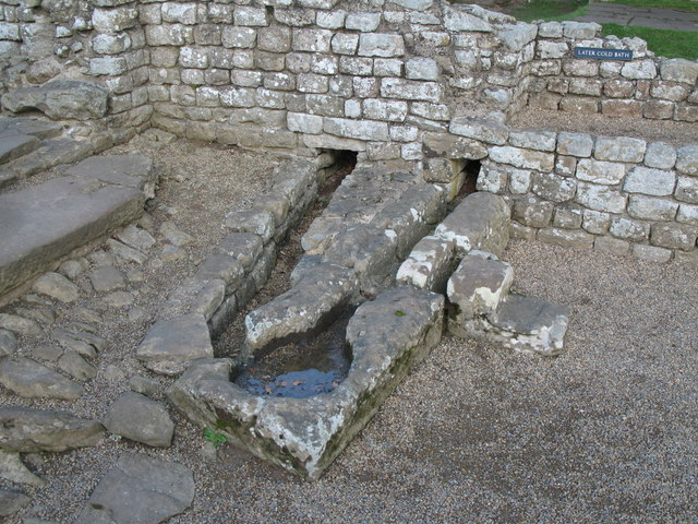 The Bath House, Chesters Fort - the Cold Room This drain carried the run-off from a basin in the centre of the room.